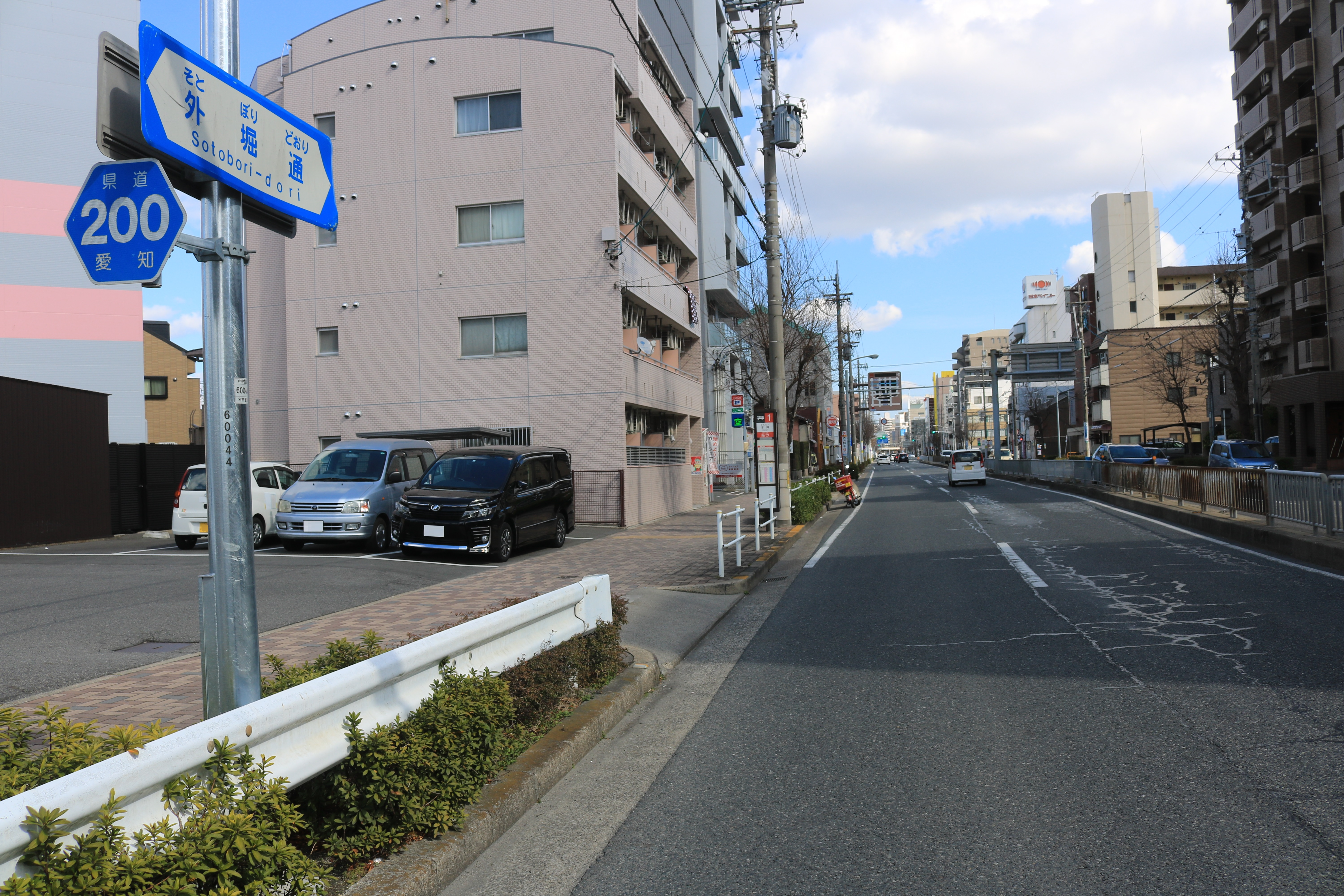 Aichi Prefectural Road Route 200 in Sakomaecho, Nakamura-ku, Nagoya, Aichi Prefecture, Japan.